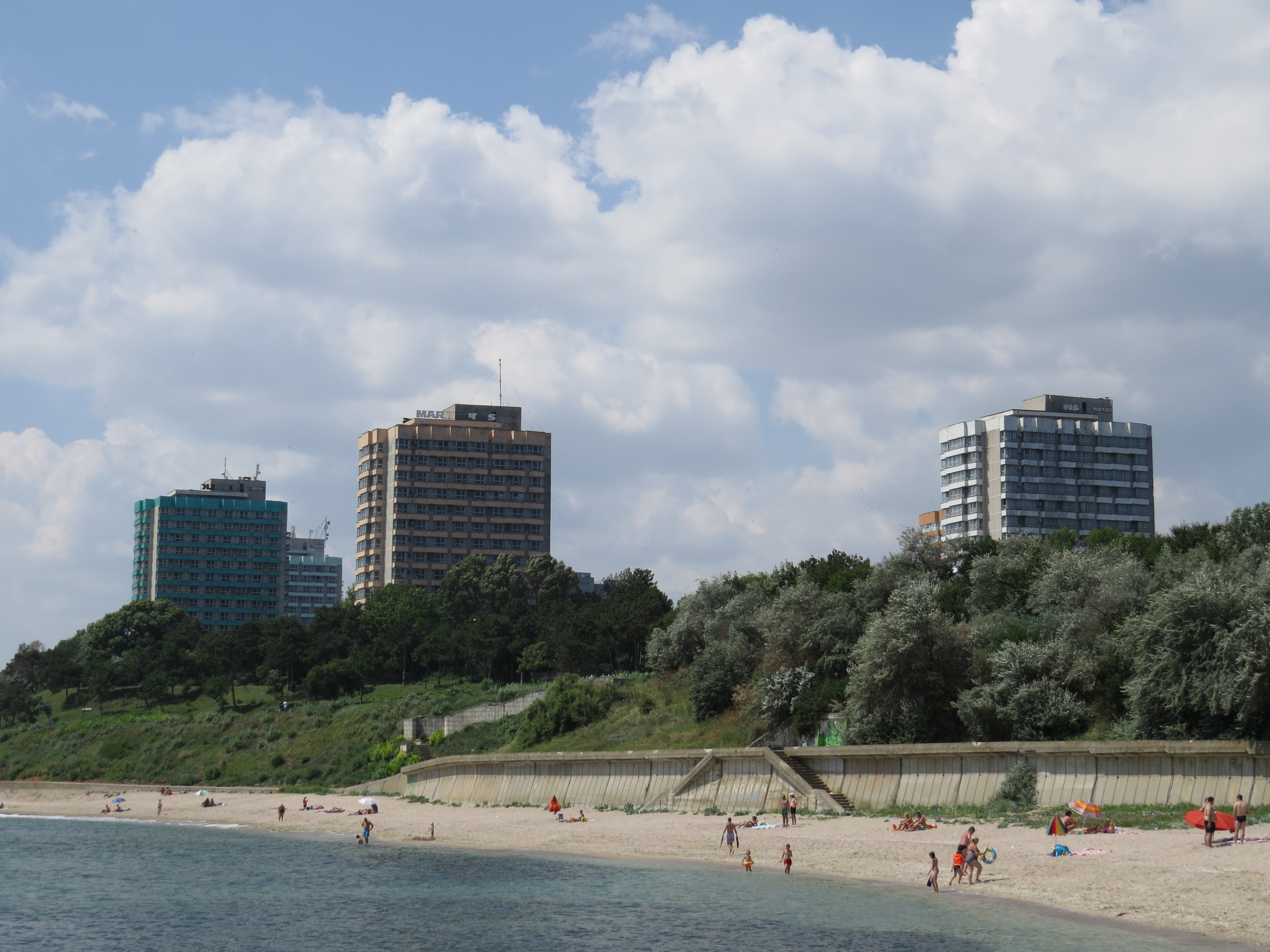 Hotels Oltenia, Maramures and Banat in Olimp, Romania